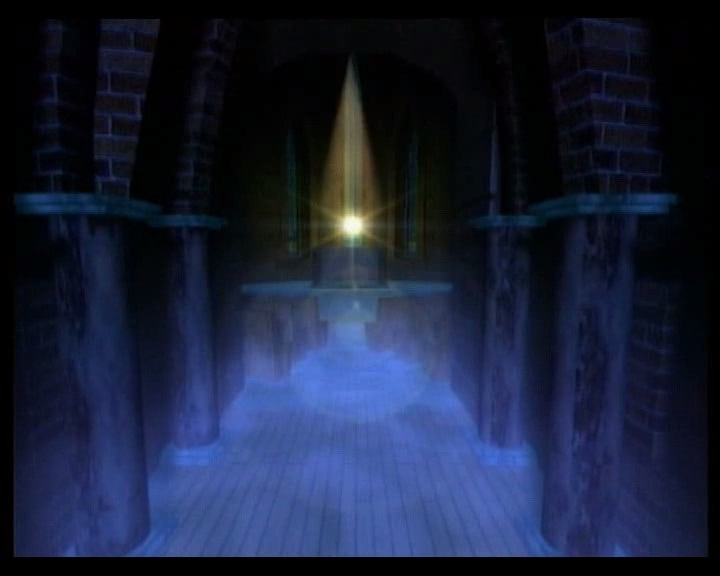 The ending scene of "Remembrance" , feature by Vassilis Mazomenos